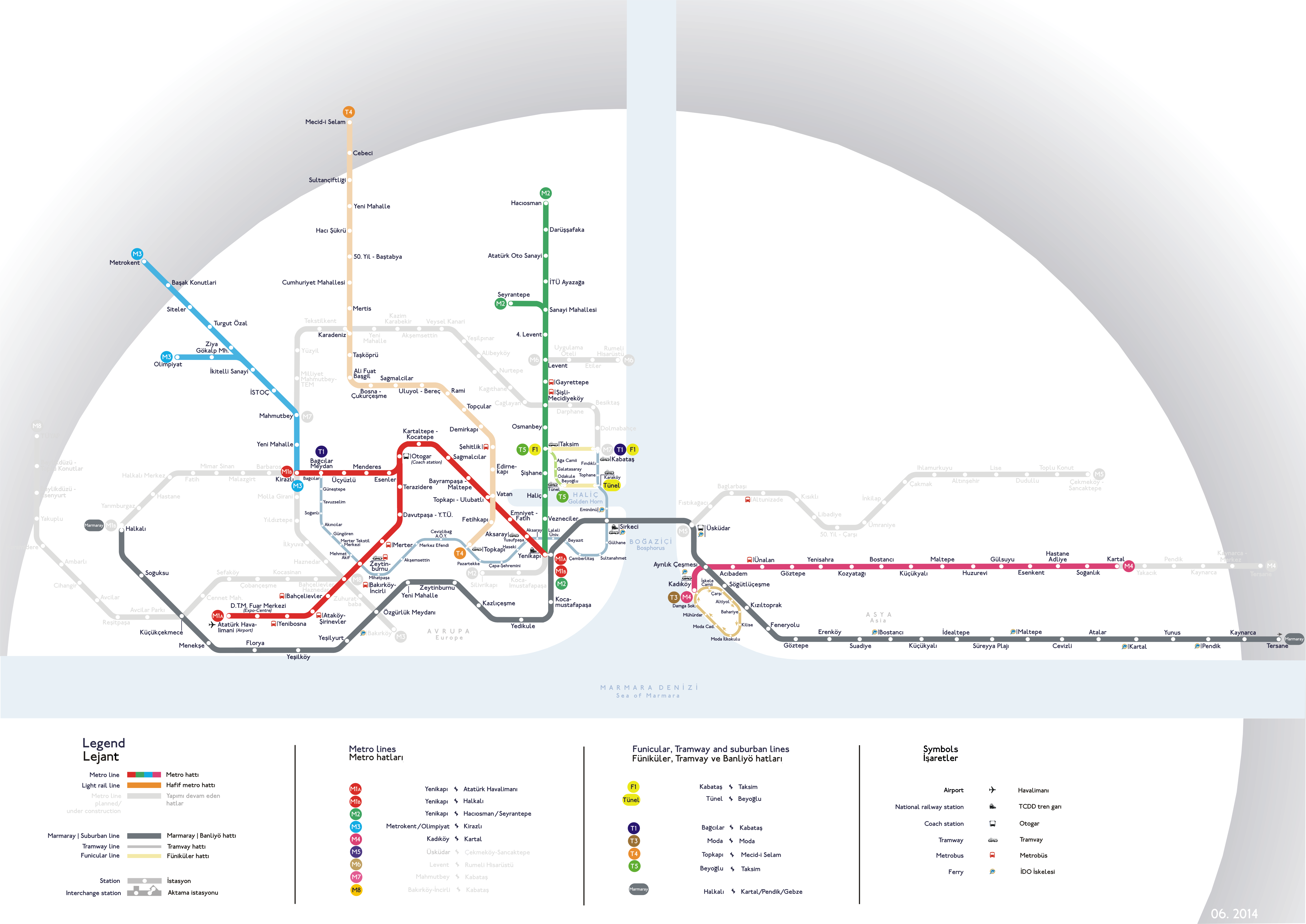 public transportation network Istanbul highlighting metro lines